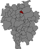 Location of Sant Vicenç de Torelló in Osona